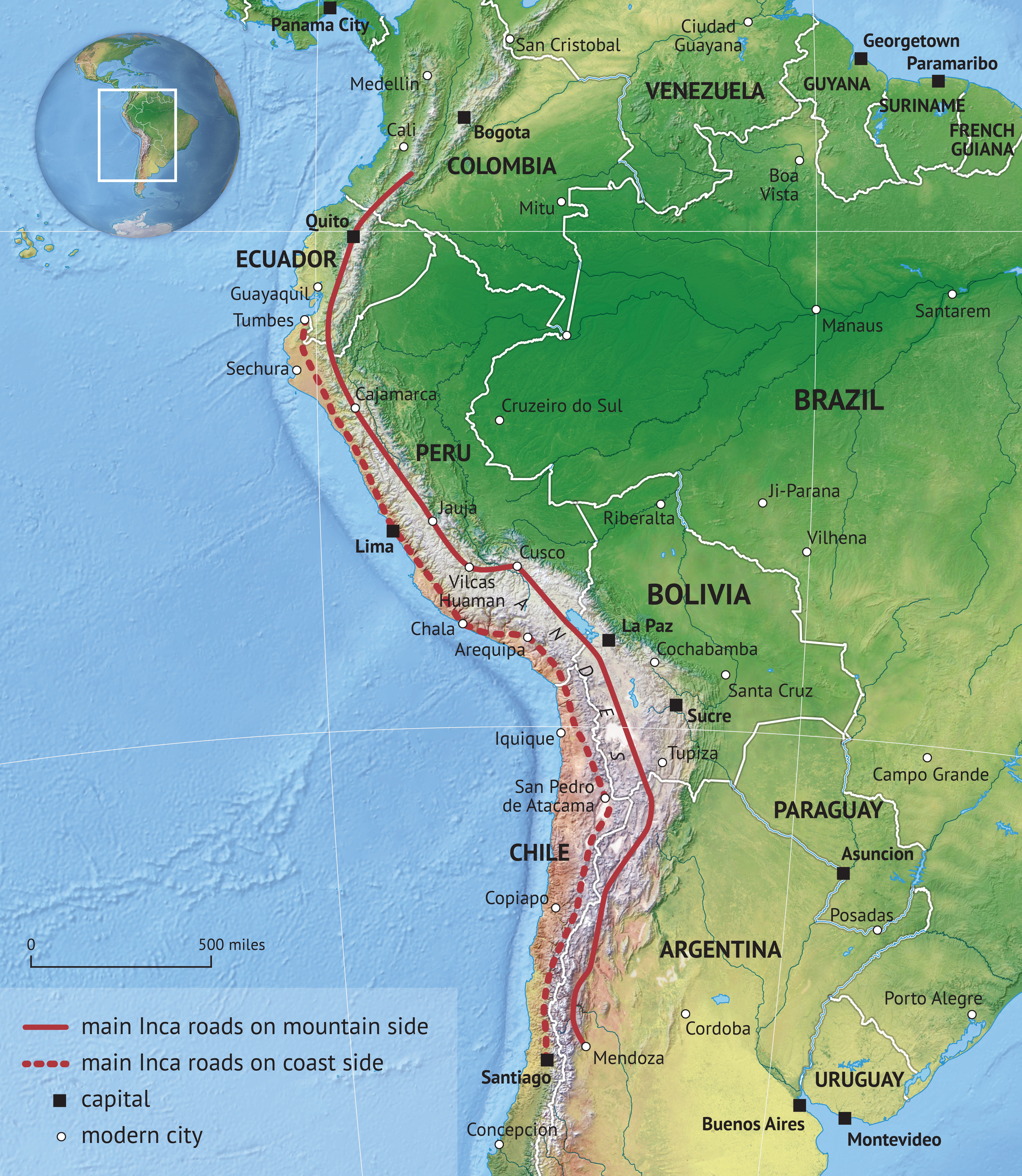 This map shows the Inca Road System through South America